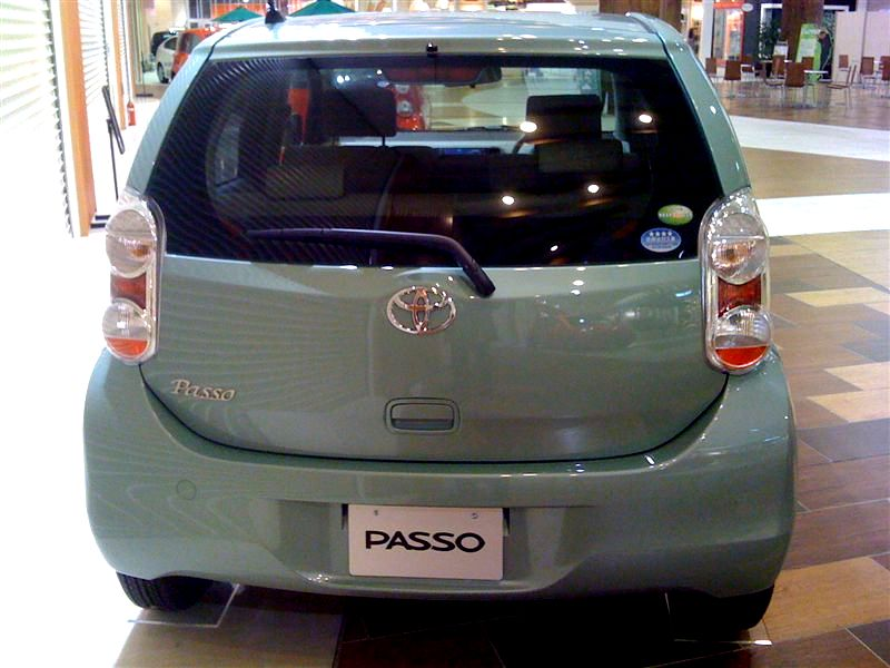 Toyota Passo